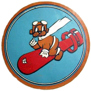 Emblem of the 329th Bombardment Squadron (World War II)